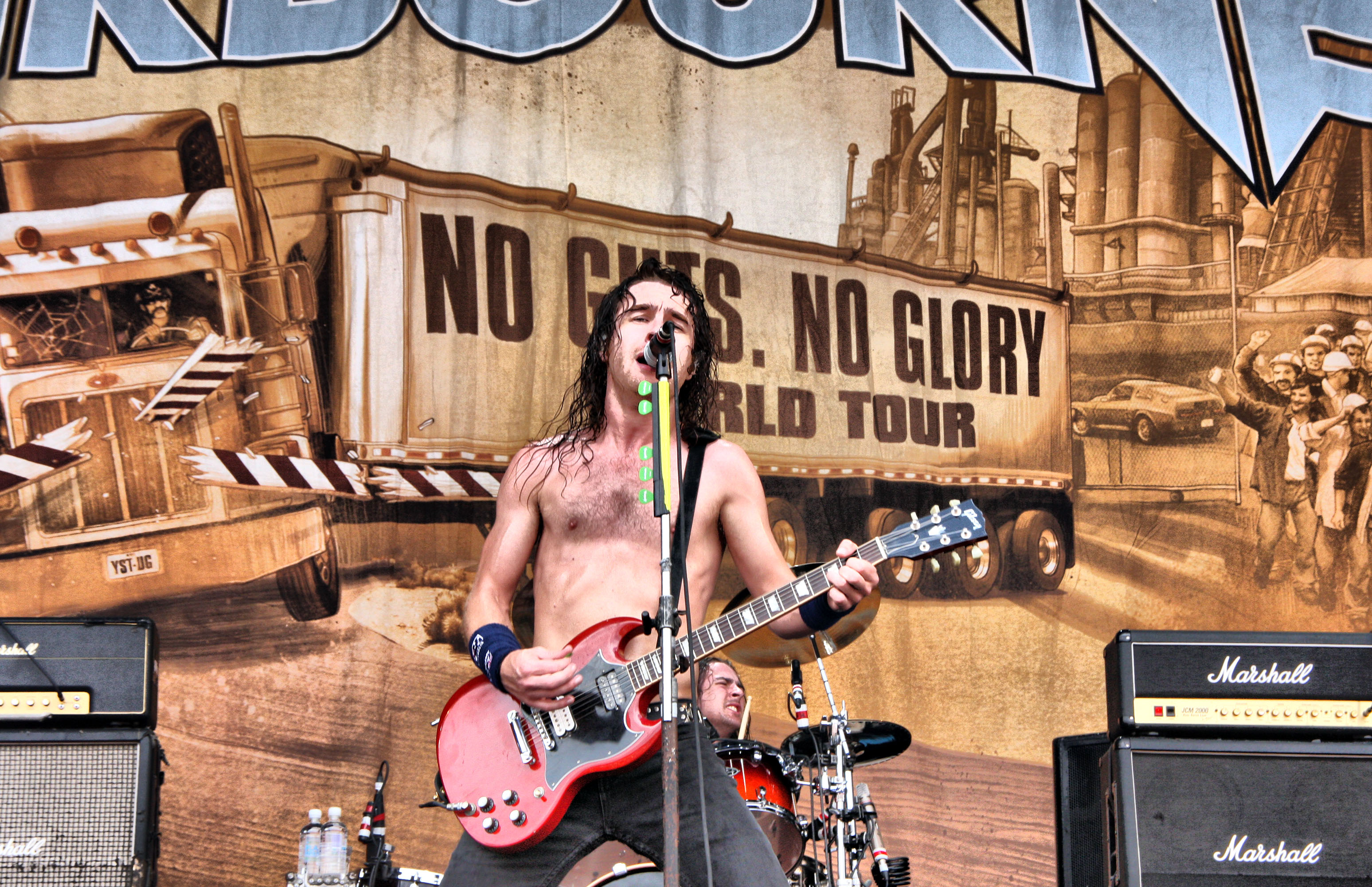 Airbourne performing at Big Day Out 2011